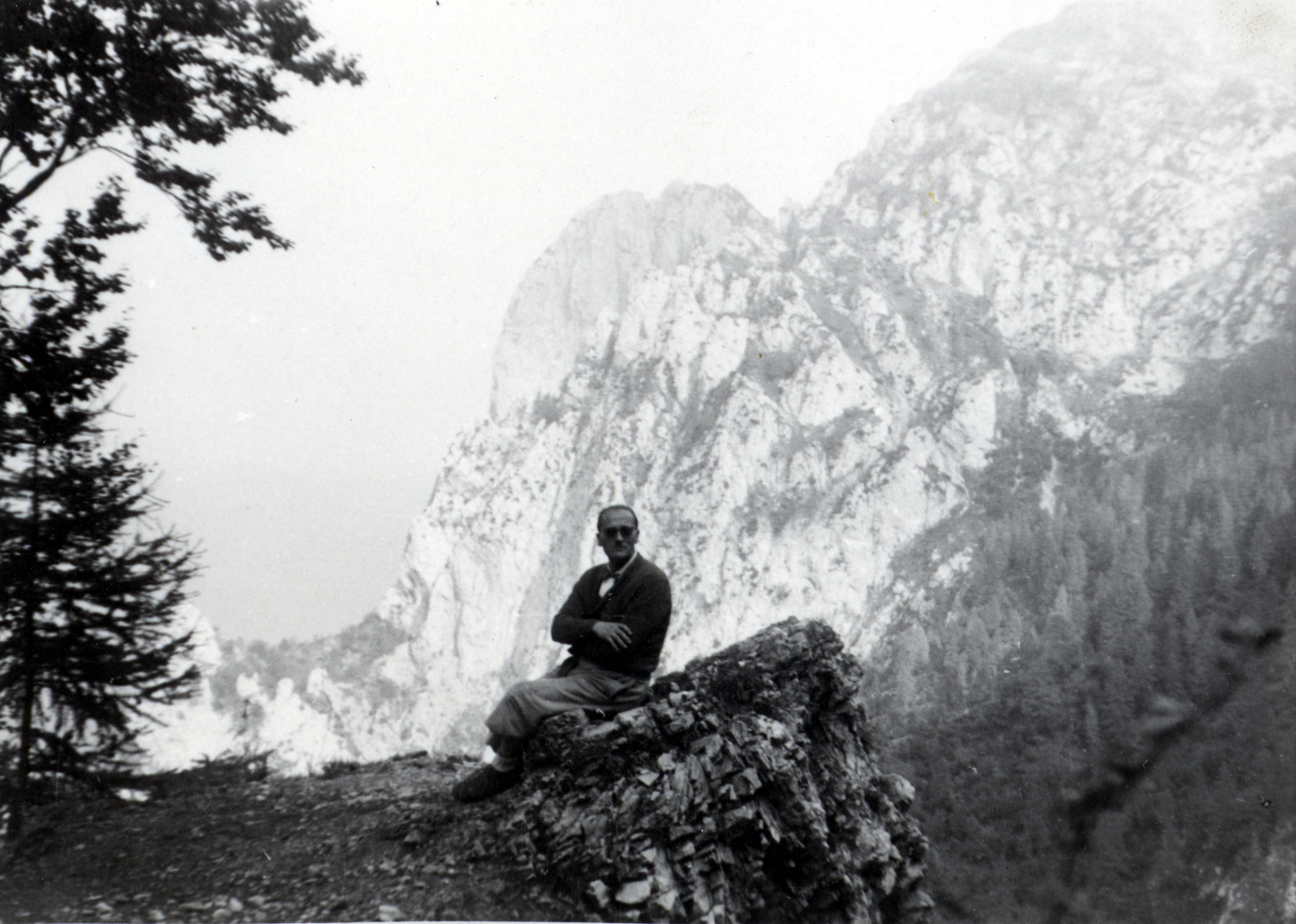 Pietro Pensa. On the background Pizzo di Eghen, courtesy Archivio Pietro Pensa.